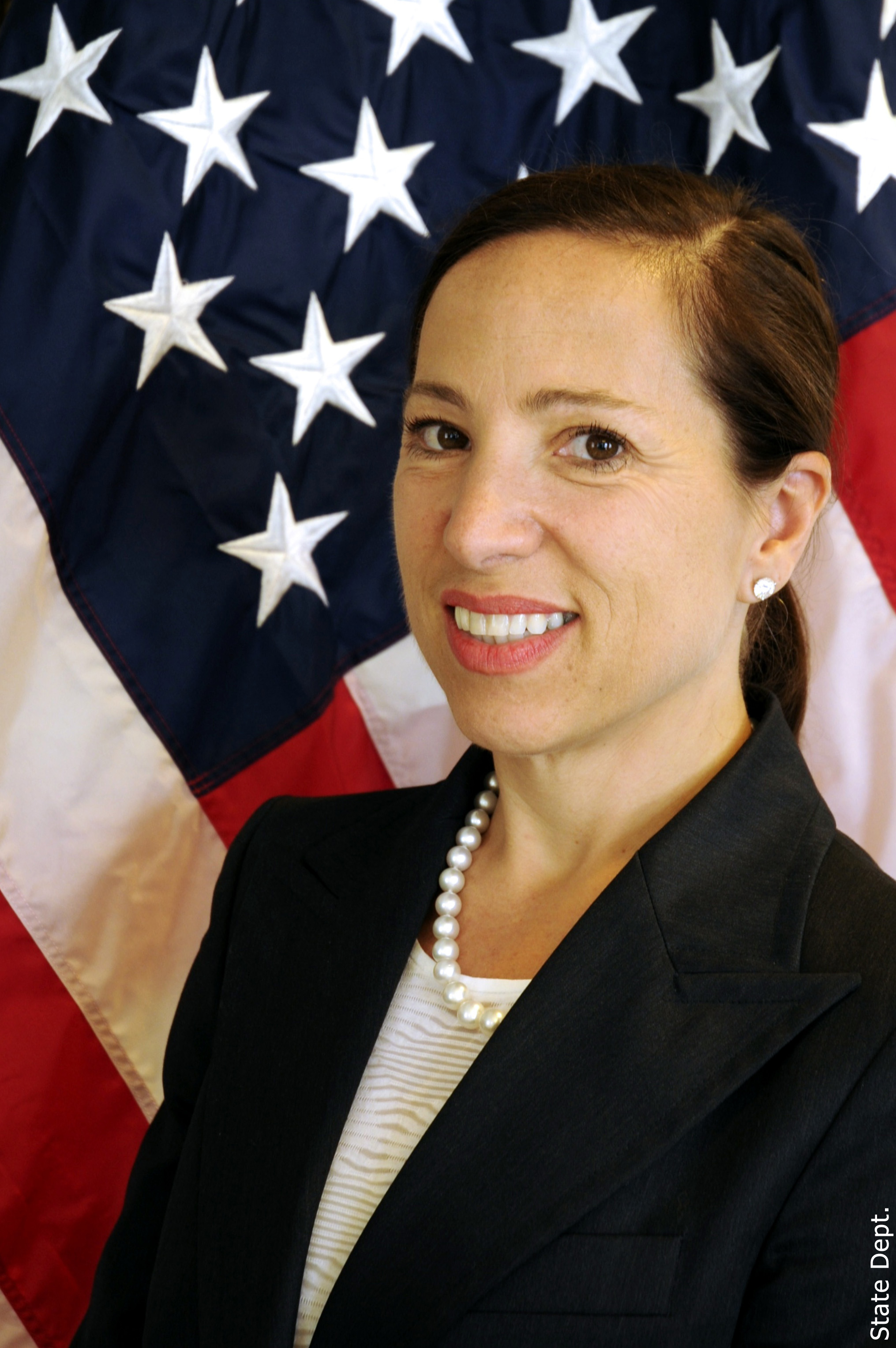 US Ambassador Eleni Kounalakis - Official State Department Photo